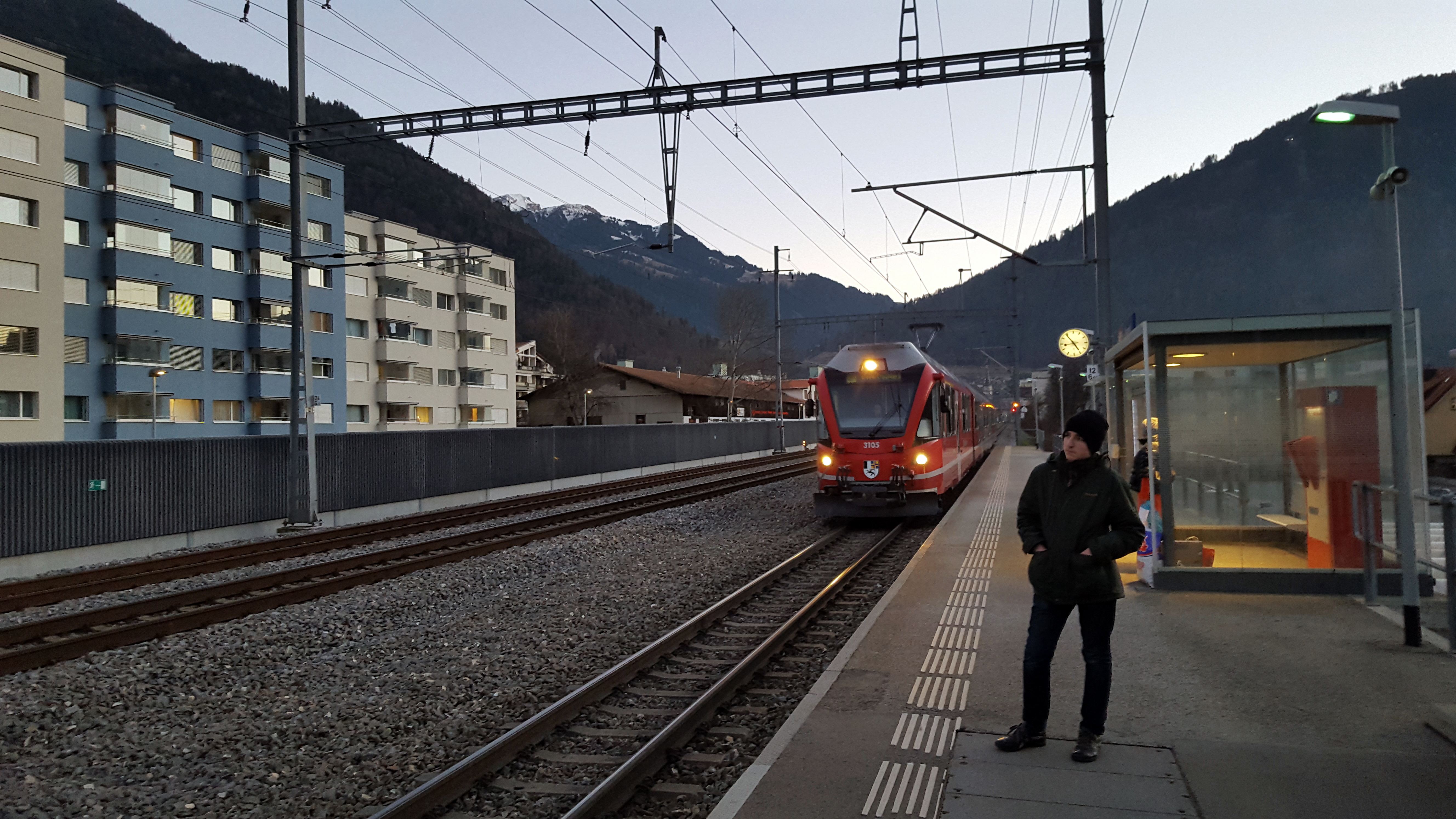 Chur-Wiesental rail station in Switzerland